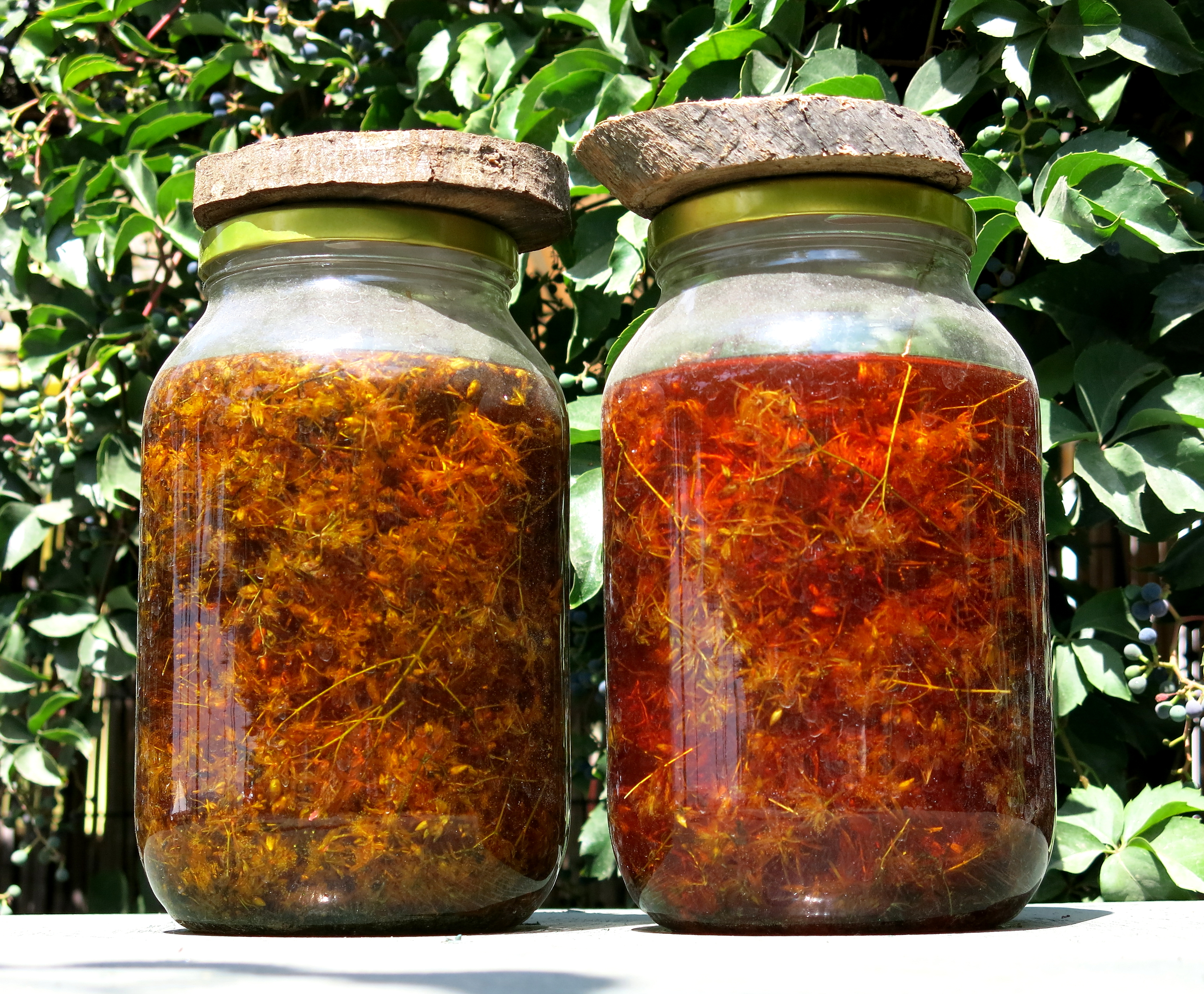 St John's wort blossoms being soaked in olive oil and exposed to sun light to make herbal medicine (lipophilic extract). Produced by Michalis, Potos/Thassos, Greece.